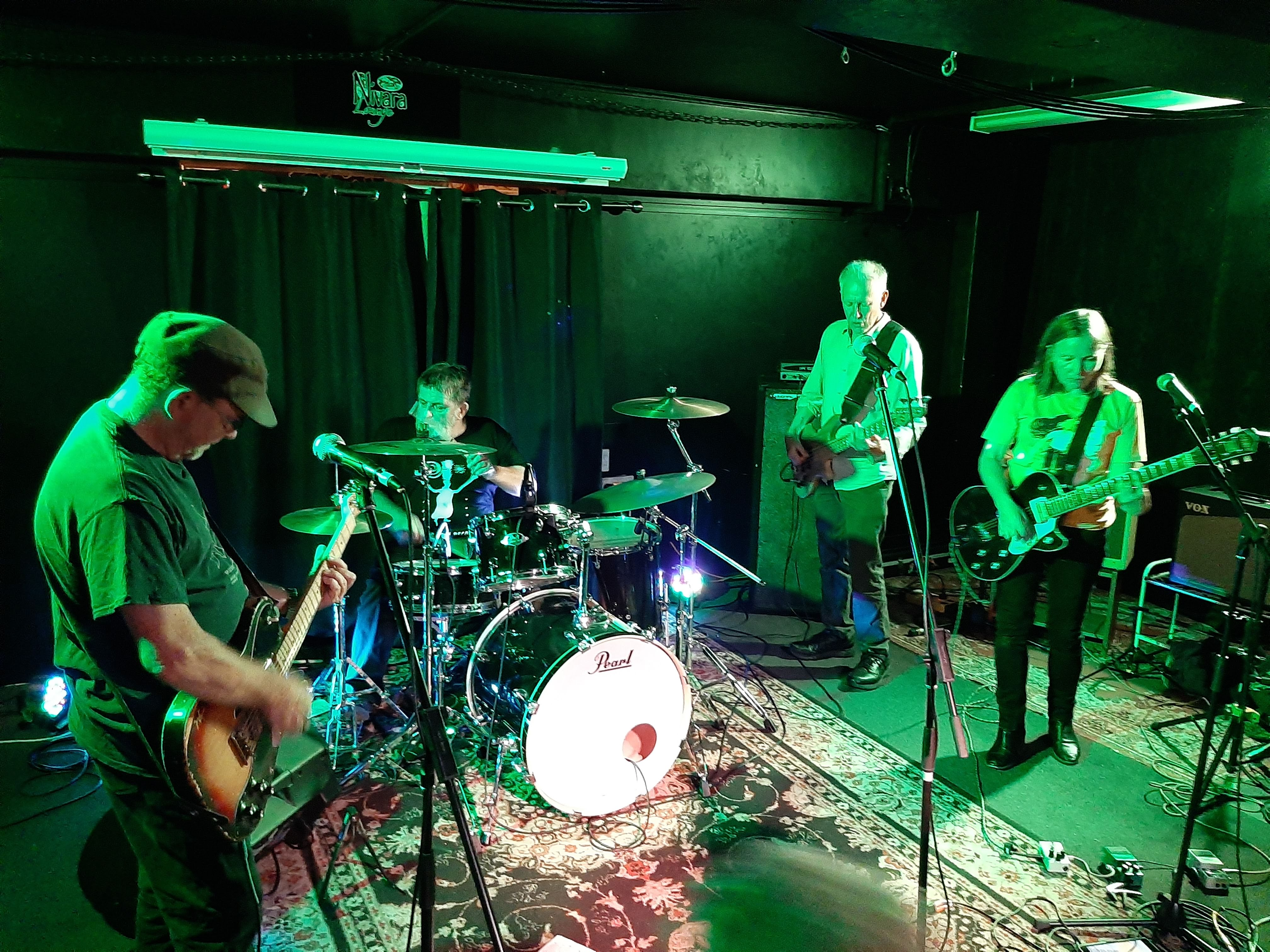 Guitarist/singer Robert Scott, drummer Malcolm Grant, bassist Paul Kean and guitarist Kaye Woodward perform onstage as The Bats at Nivara Lounge, Hamilton, New Zealand, 6 March 2020